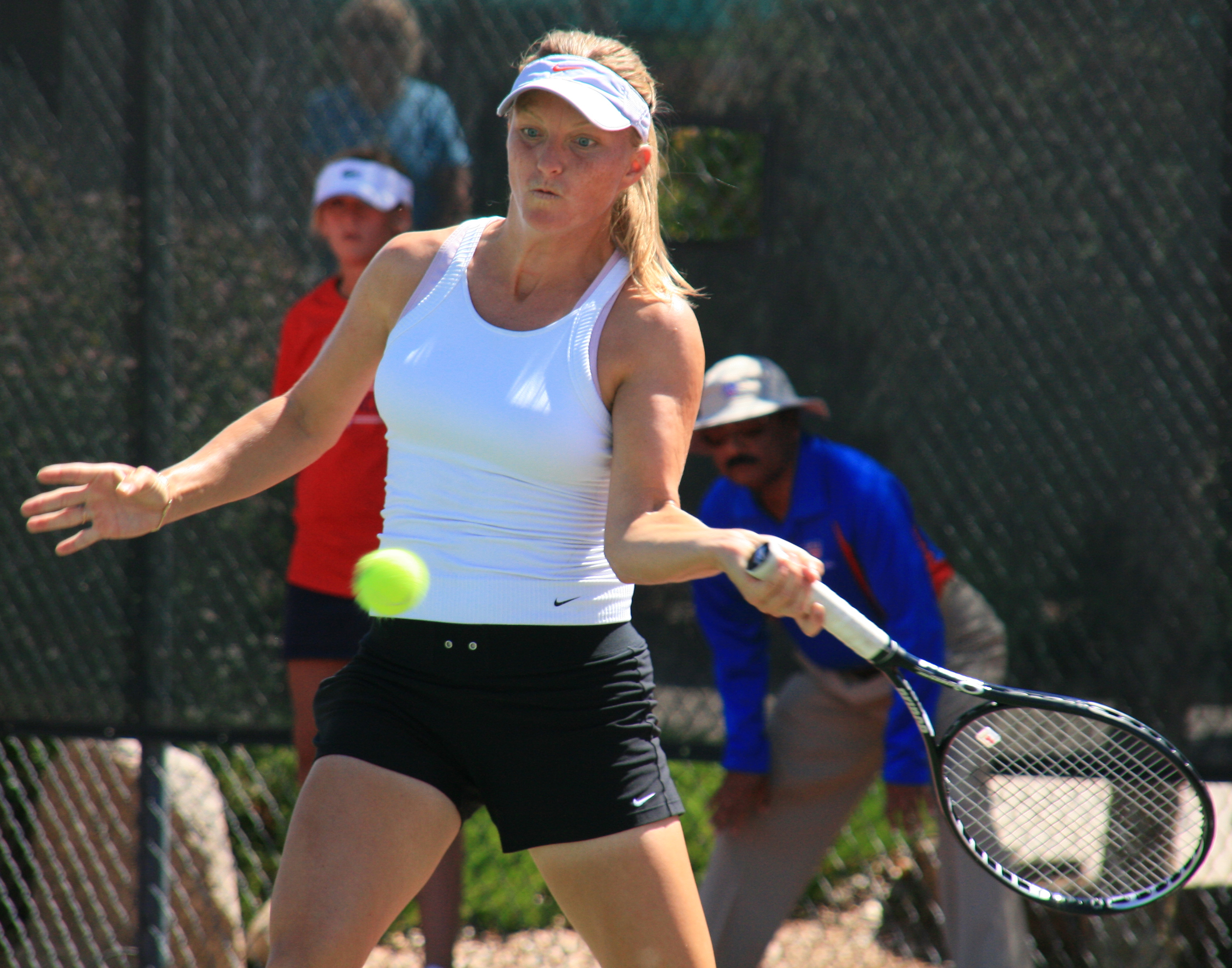 Julie Ditty in the singles final at the Coleman Vision Tennis Championships in Albuquerque, New Mexico.